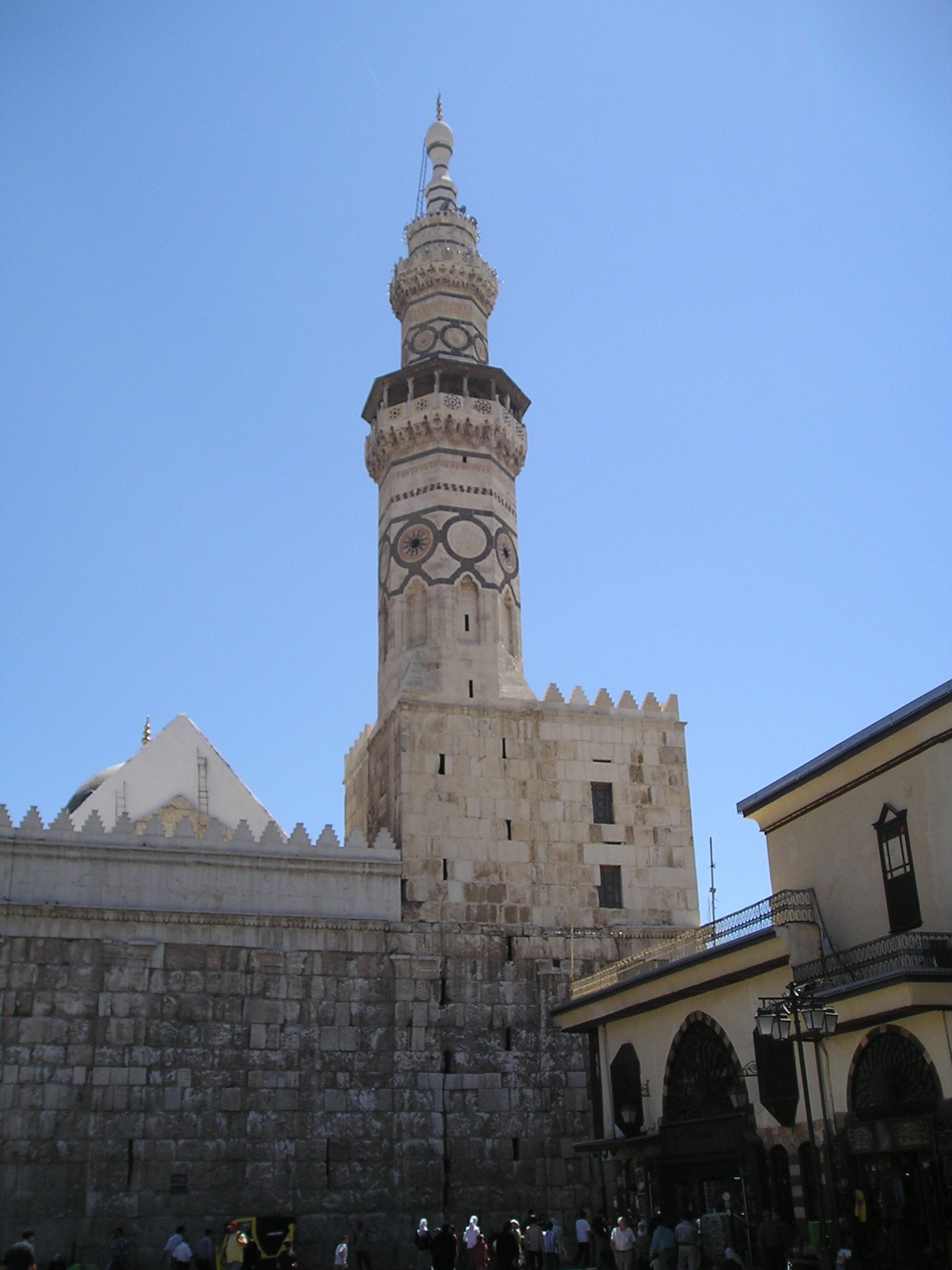 Damascus, Syria - Umayyad Mosque: minaret al-Gharbiye at the southwestern corner